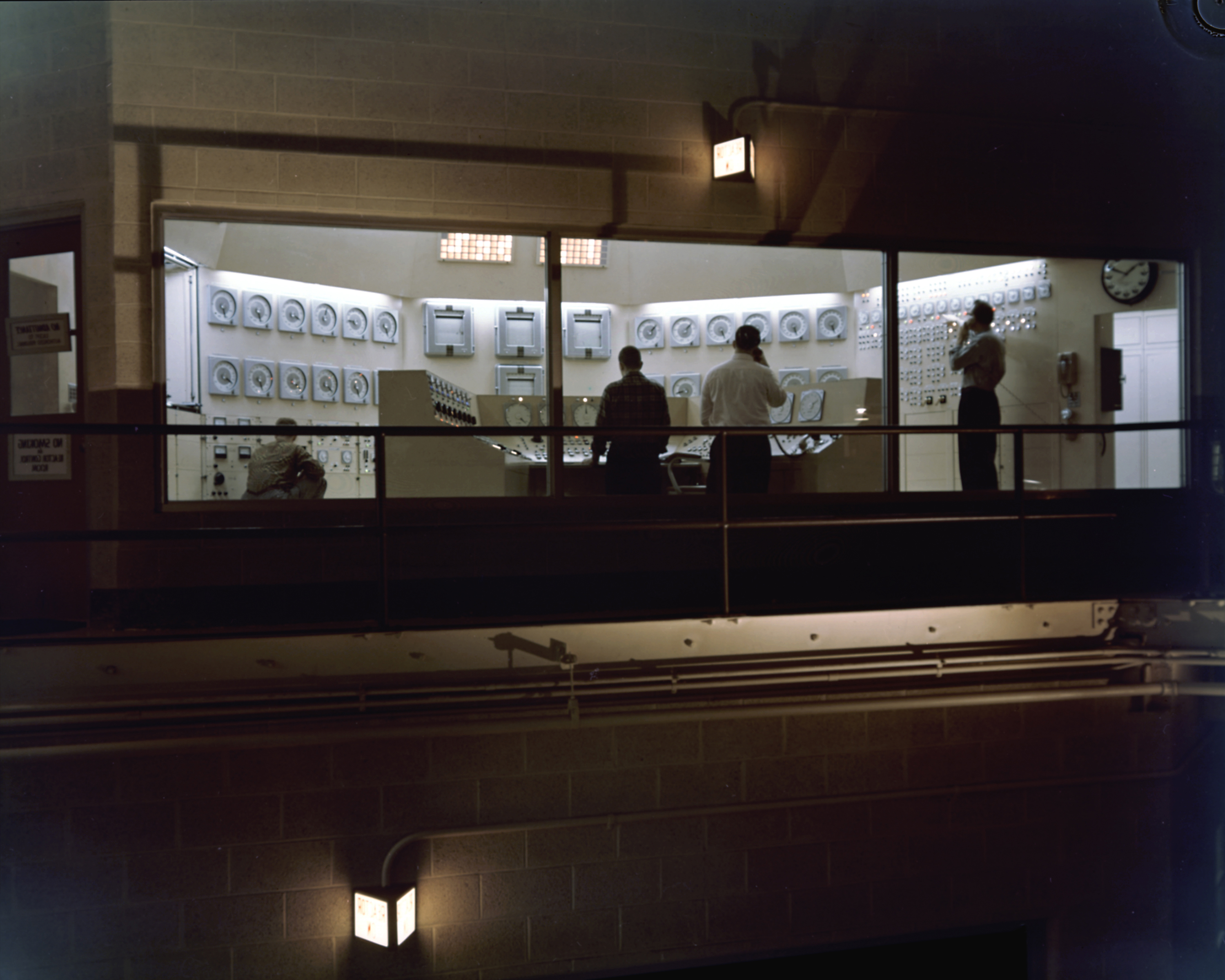 Plum Brook reactor control room as engineers prepare to "take it critical" of the first time in 1961. (NASA GRC: C-1961-55813)